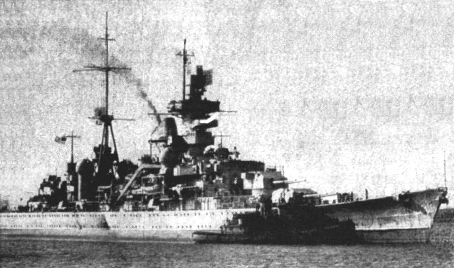 The former German heavy cruiser Prinz Eugen, officially USS Prinz Eugen (IX-300), off the Philadelphia Naval Shipyard, Pennsylvania (USA). Prinz Eugen had a crew of 8 officers and 85 enlisted men of the U.S. Navy supervising 27 officers and 547 enlisted men of the former German Kriegsmarine for tests.